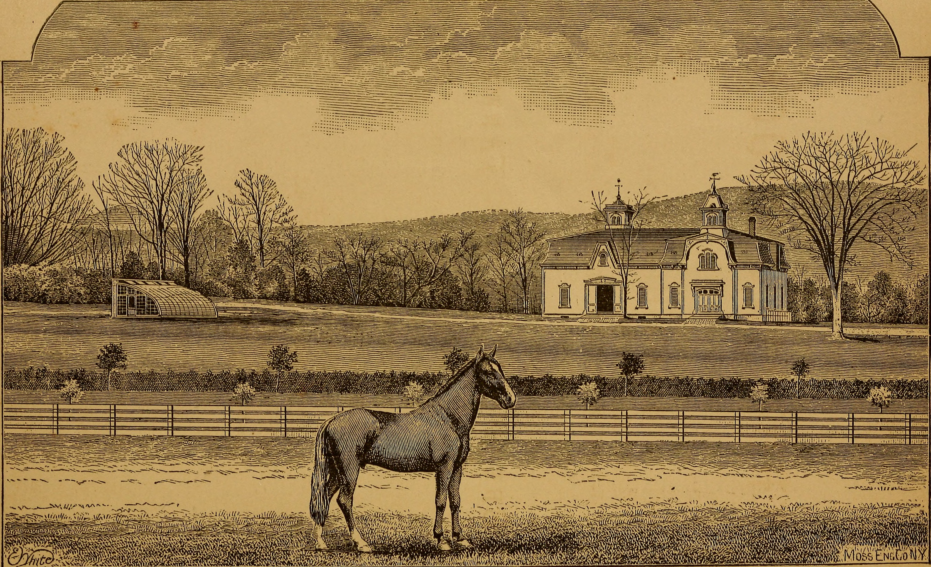 Title: Catalogue of trotting stock : belonging to R.P. Pepper. South Elkhorn Stock Farm, Frankfort, Ky., near Frankfort, Kentucky Year: 1880 (1880s) Authors: South Elkhorn Stock Farm (Frankfort, Ky. ); Pepper, Robert P Subjects: South Elkhorn Stock Farm (Frankfort, Ky. ); Horses; Harness racehorses; Harness racehorses; Racehorses Publisher: Frankfort, Ky. : Printed at the Kentucky Yeoman Office Text Appearing Before Image: ' Text Appearing After Image: Q ^, o o Pi o